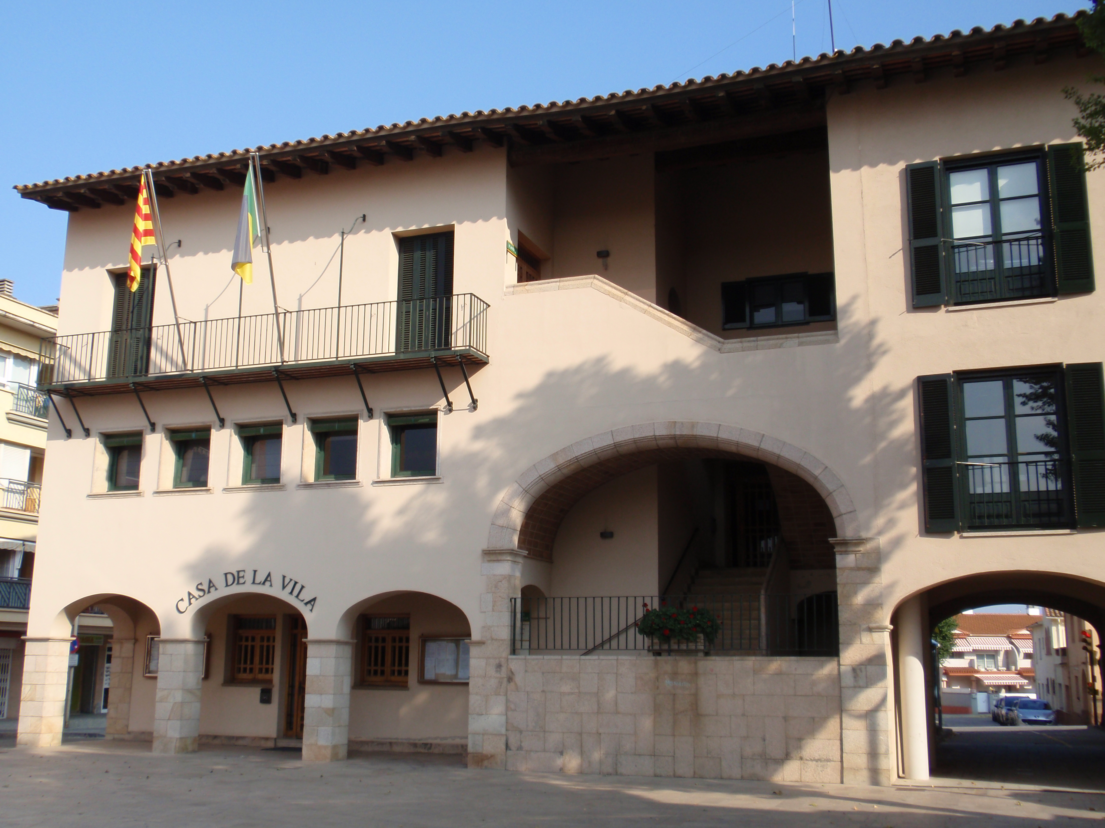 Town hall of Maçanet de la Selva (Catalonia, Spain)